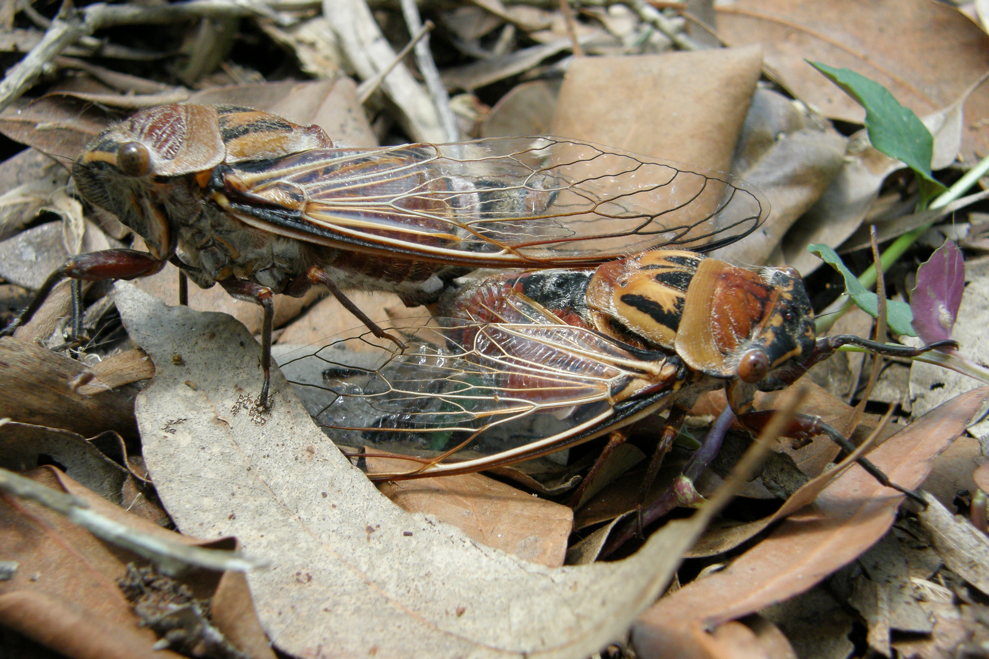 Pair of mating double drummers (Thopha saccata), SE Qld - male in front on right